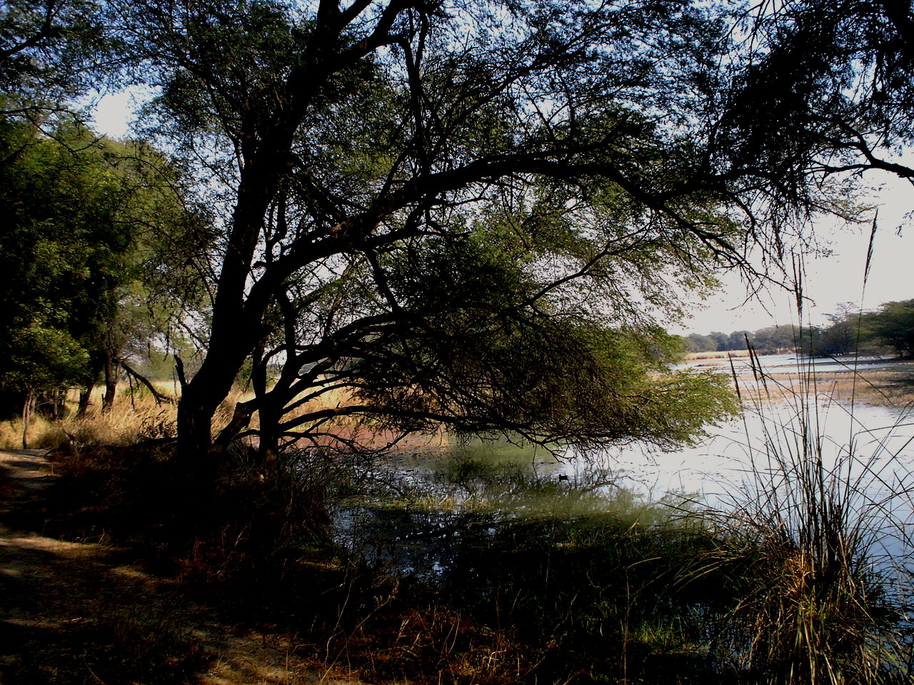 Sultanpur National Park, Haryana, India